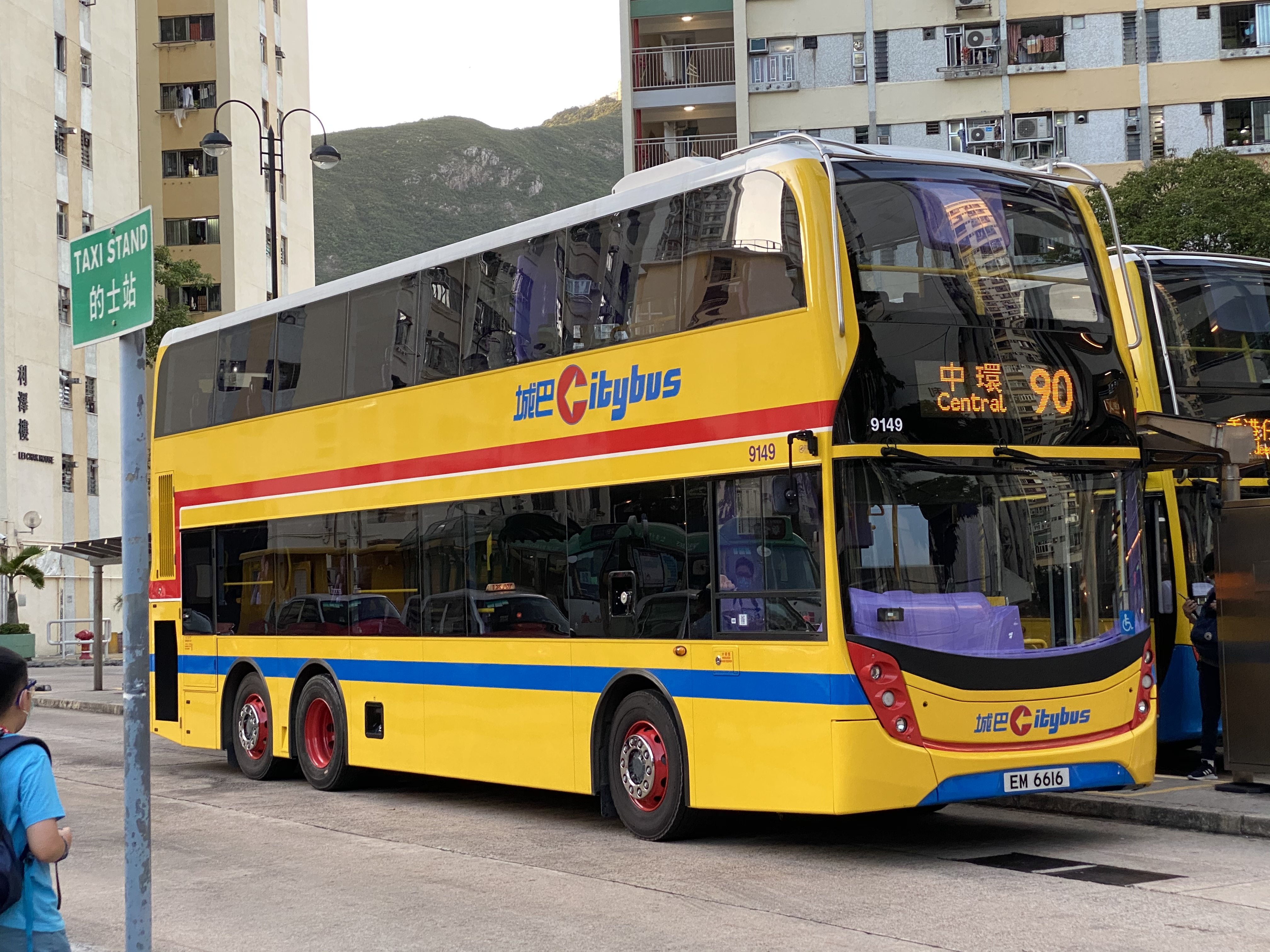 中文（香港）: This photo is taken in Ap Lei Chau.